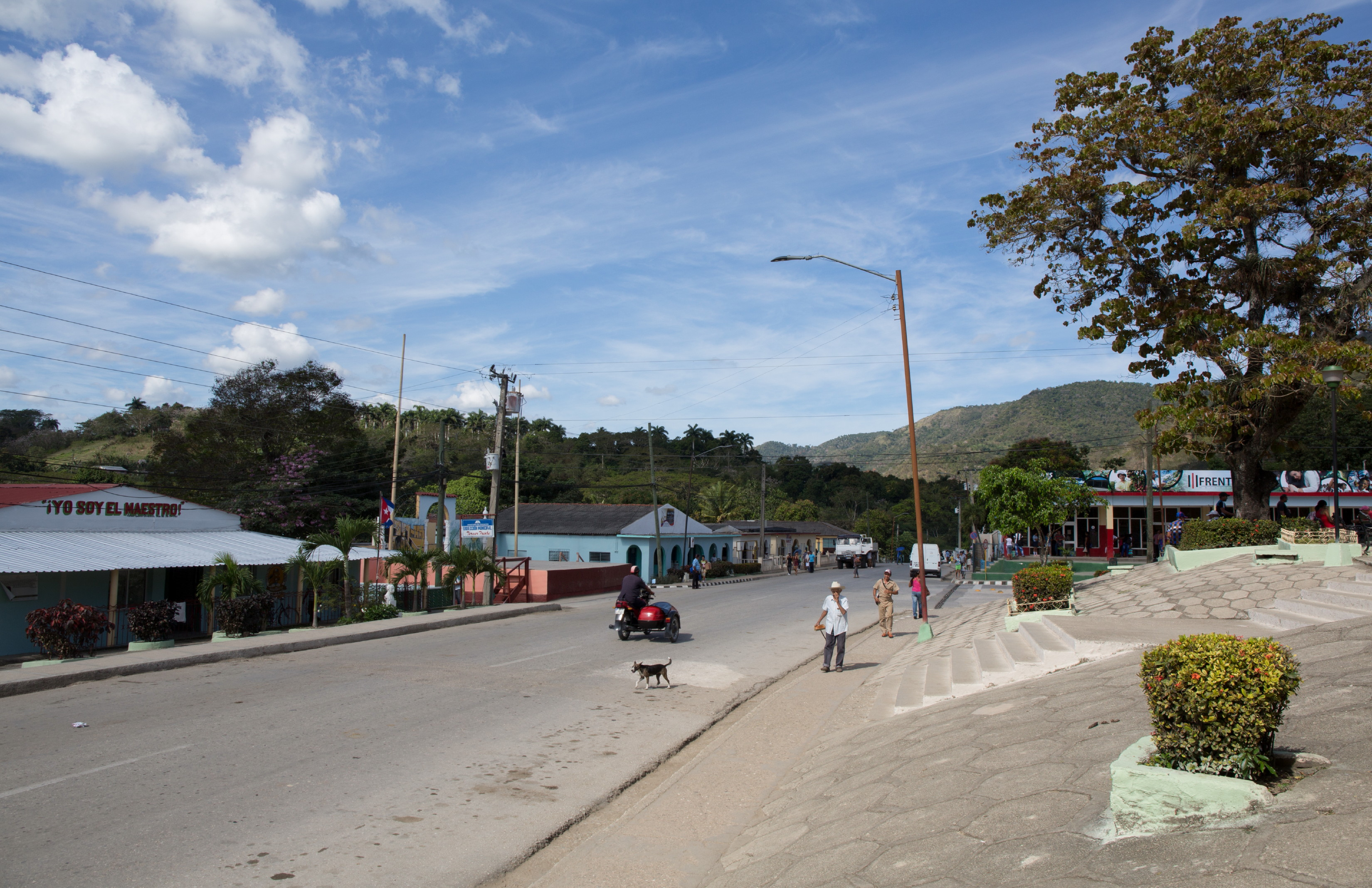 Cruce de los Baños the municipal seat of the municipality Tercer Frente, Cuba